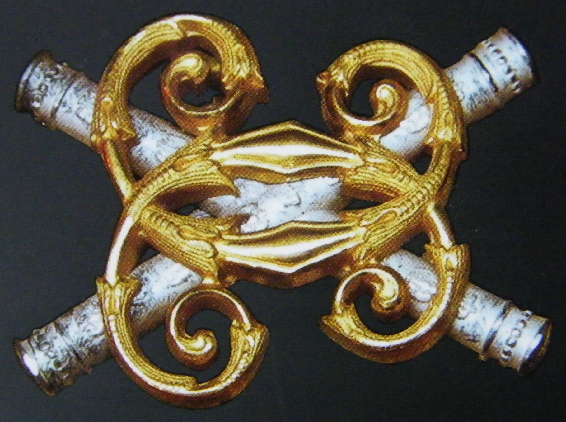 Rank insignia for the Romanian Marshals (1930-1947)